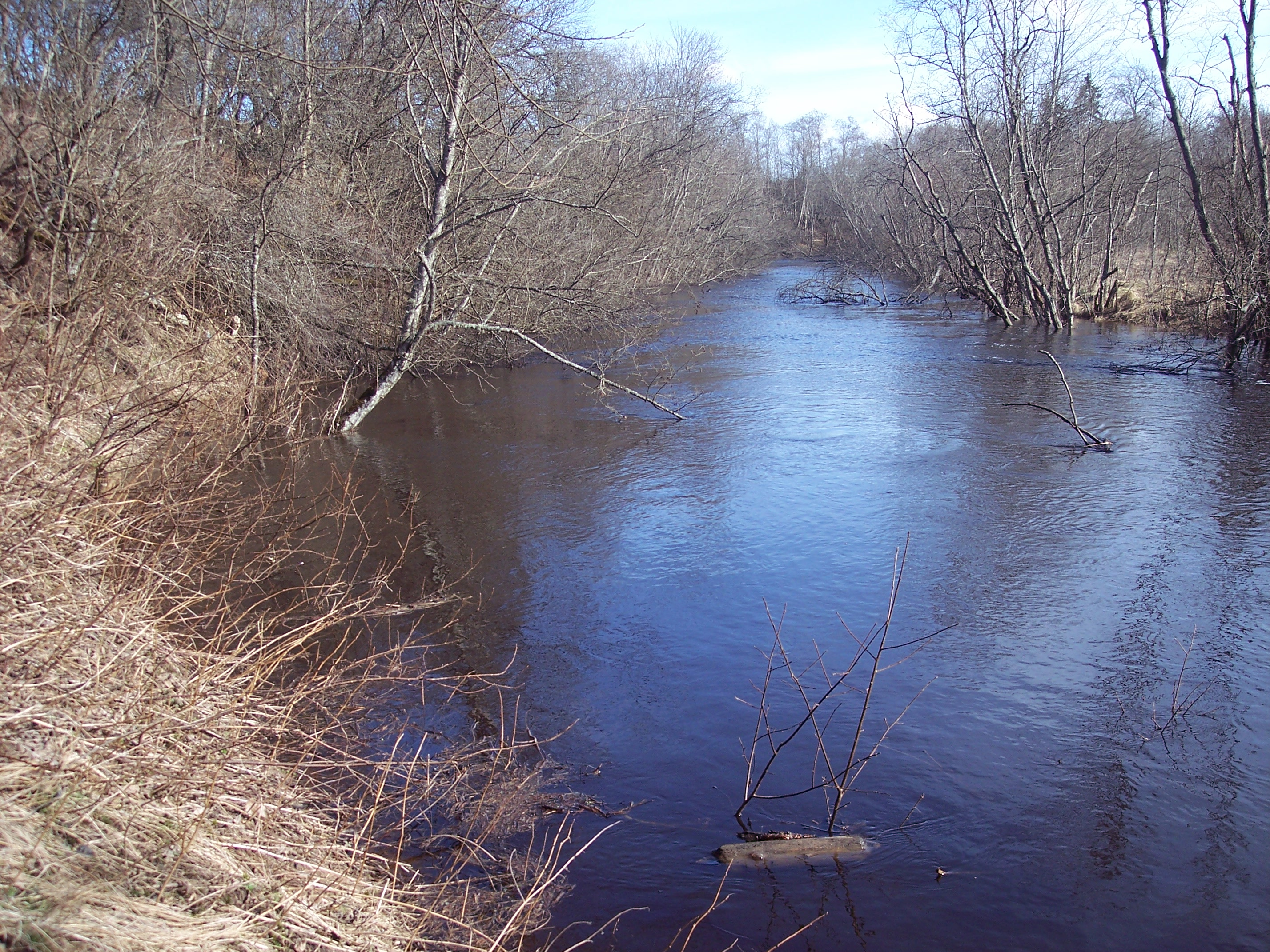 River Brasla